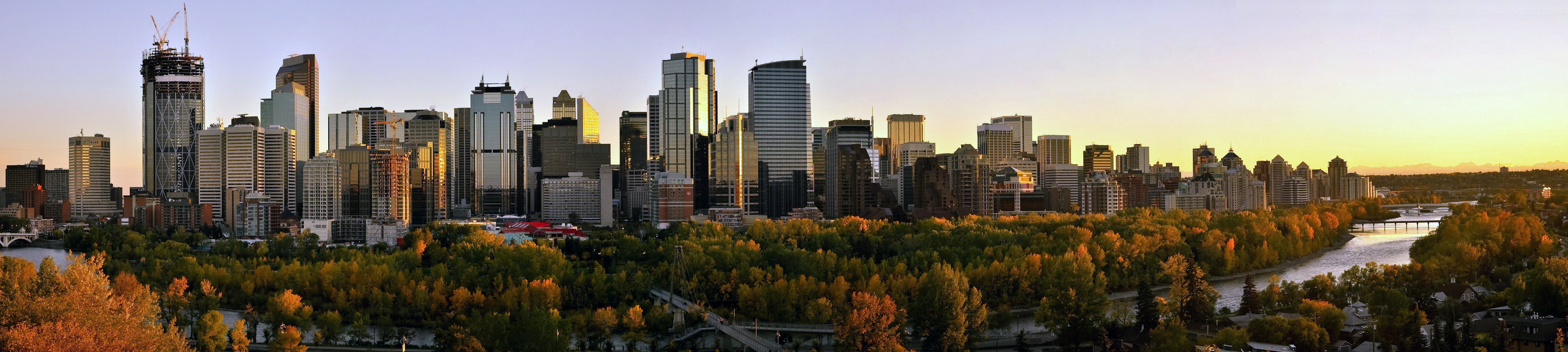 View of downtown Calgary, Canada, as seen from Crescent Heights bluff during sunset.